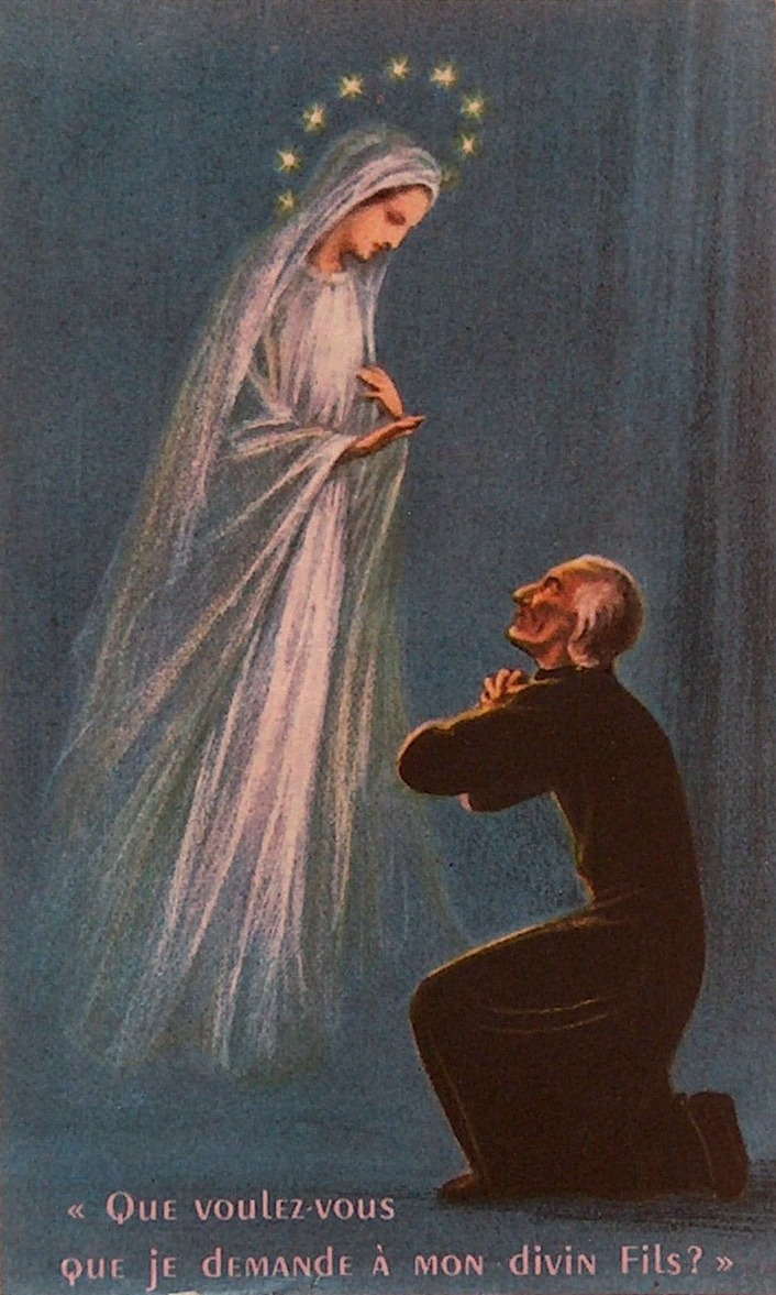 religion image pieuse éphémère catholicisme catholique missionnaires novena is an ancient Christian devotional worship practice, it was popular through mid 20th century in much of Europe. The devotee would pray before a statue, image or icon seeking favors or divine intervention in a personal problem such as illness, sick loved one or other difficulties. Novena, from Latin for nine, was usually a ritual praying over nine days or nine weeks. Above is an 19th century novena painting from France